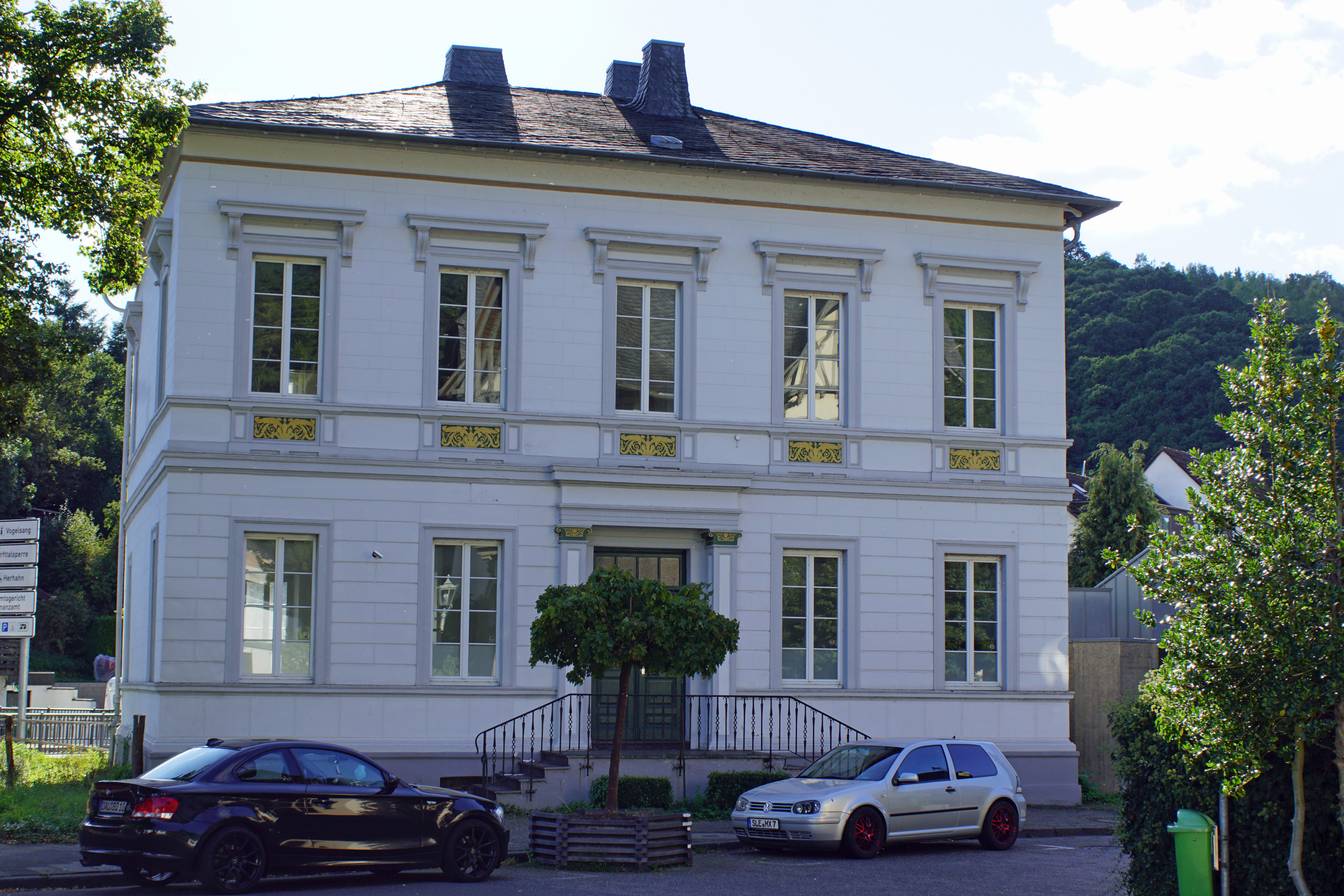 This is a photograph of an architectural monument., no. 0